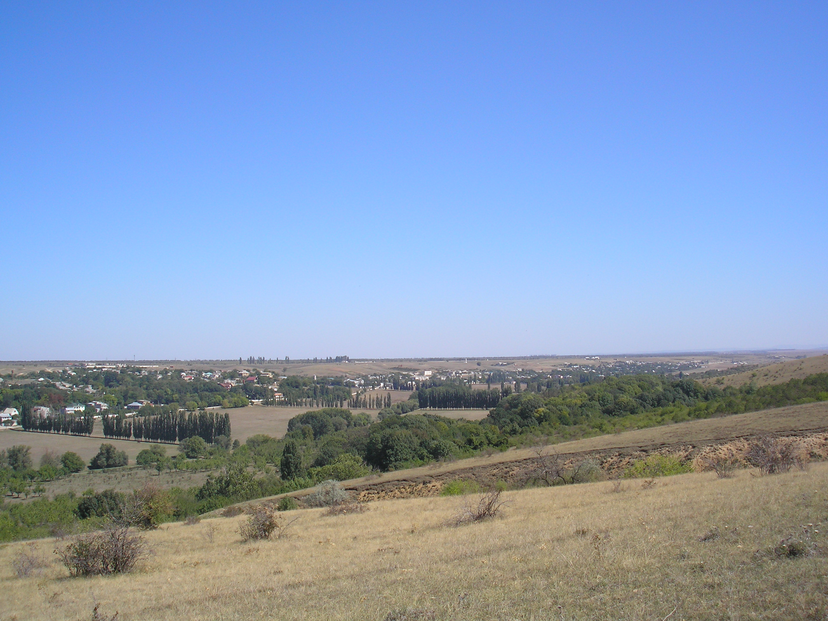 West Bulganak river in the middle reaches